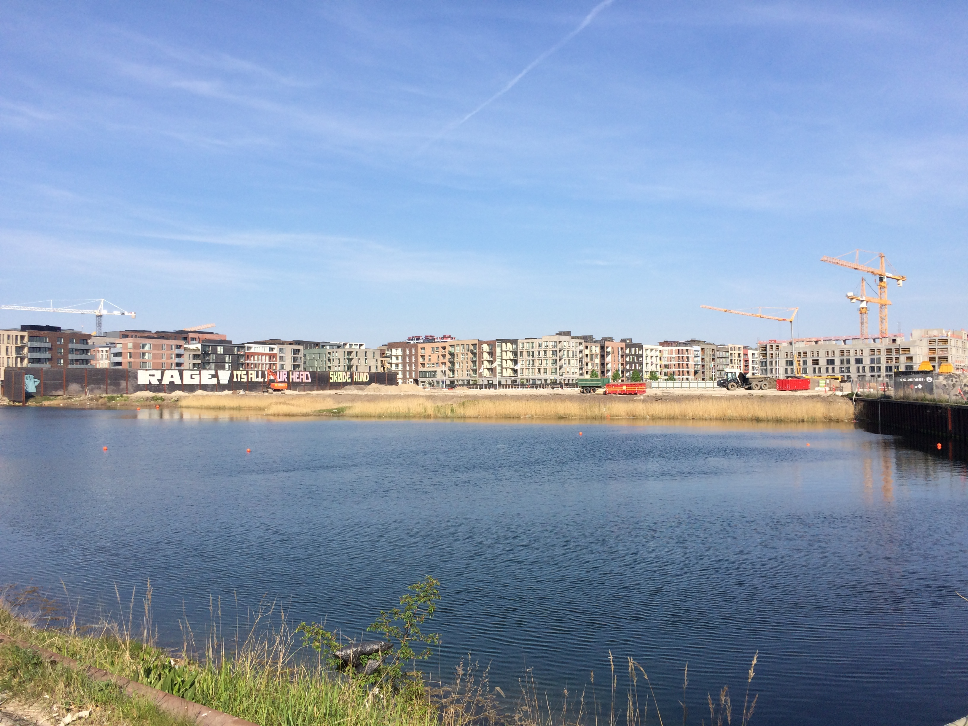 Fordgraven - Copenhagen harbour in 2017